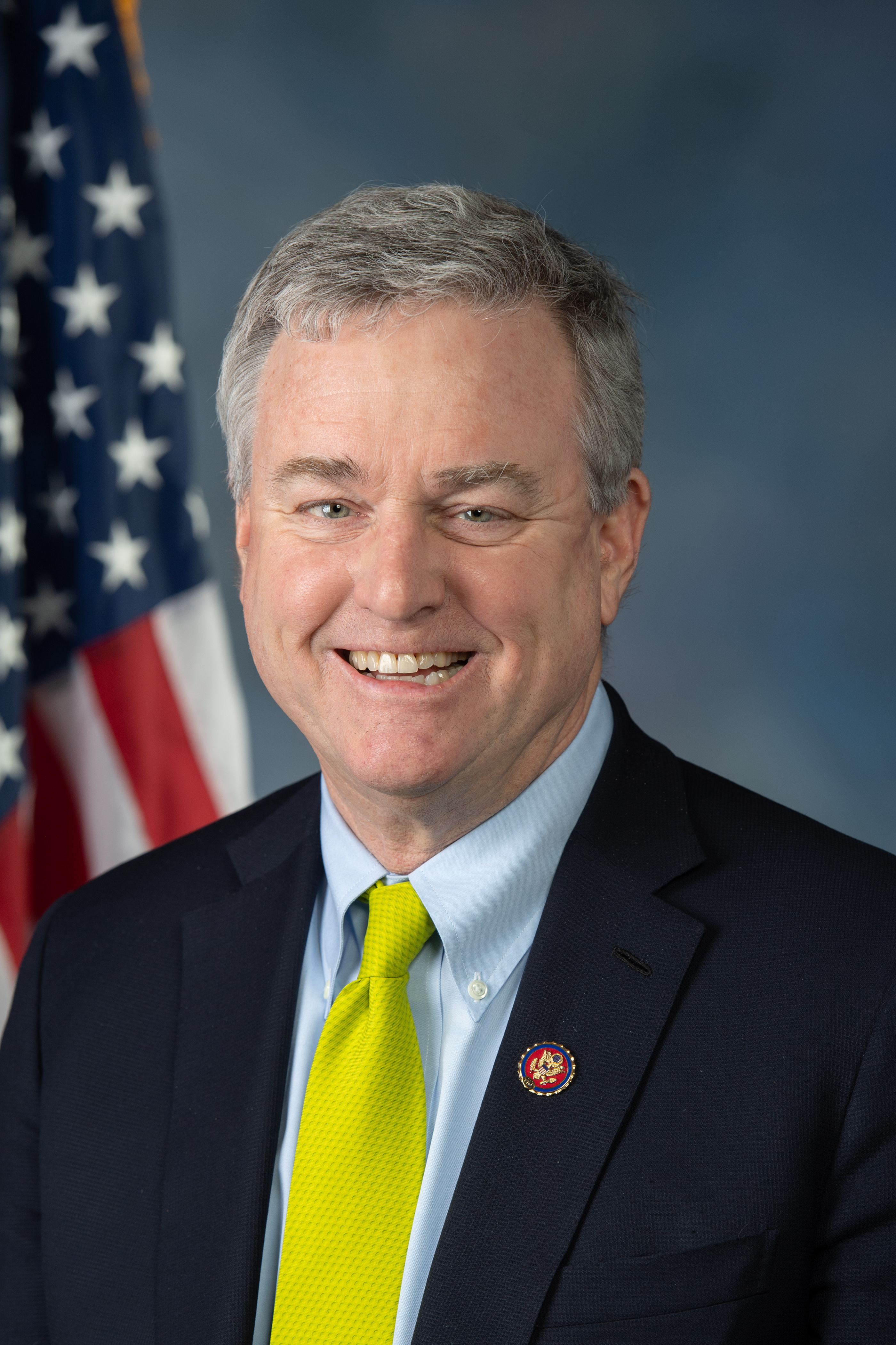 US Congressman David Trone official freshman portrait, 116th Congress 2019.